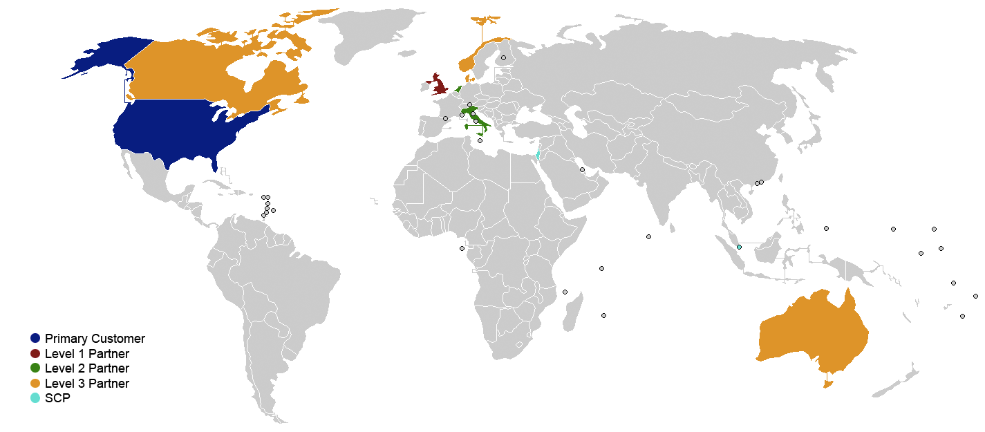 F-35 potential purchasers without Turkey